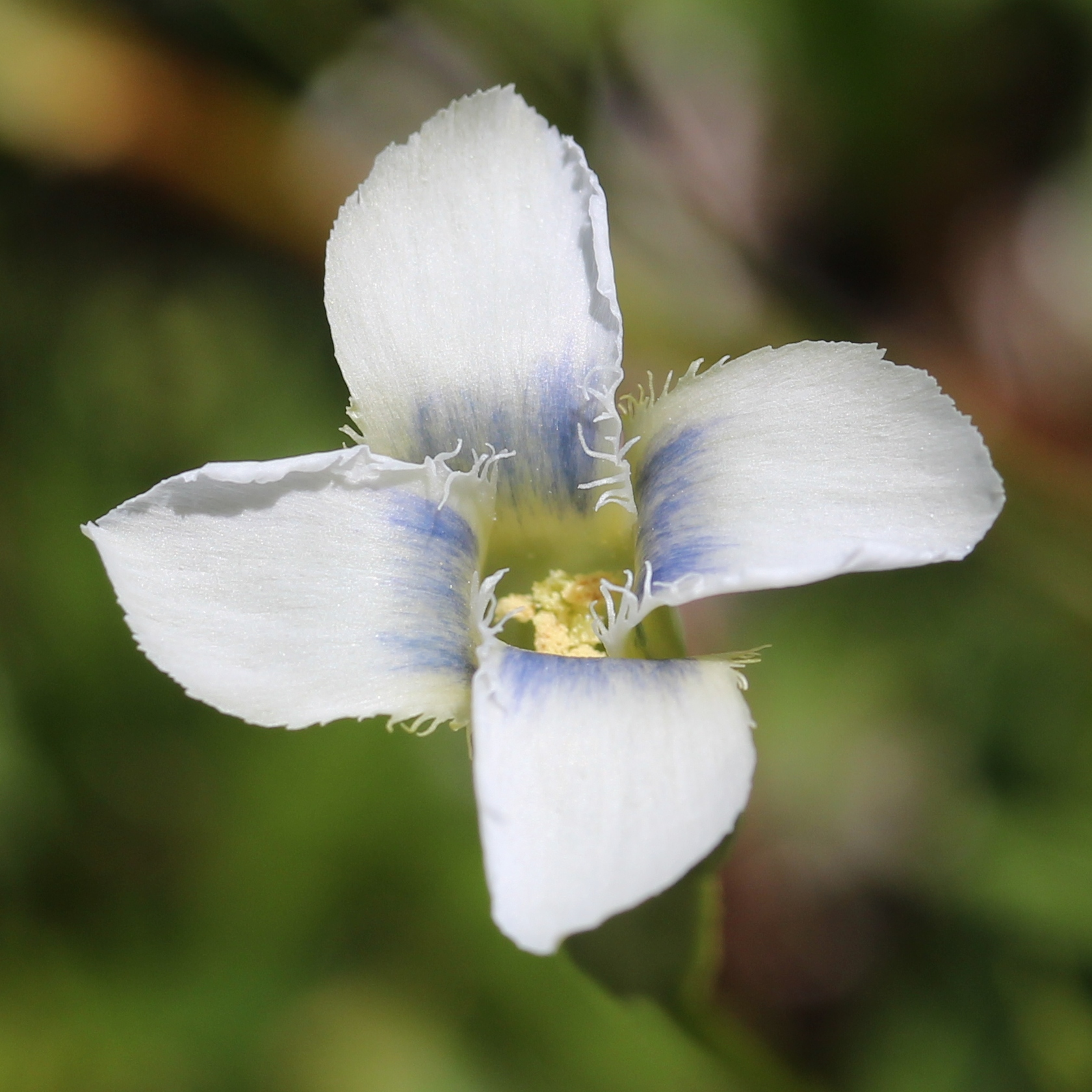 Gentianopsis yabei in Mount Shiroumayari, Hakuba, Nagano prefecture, Japan.